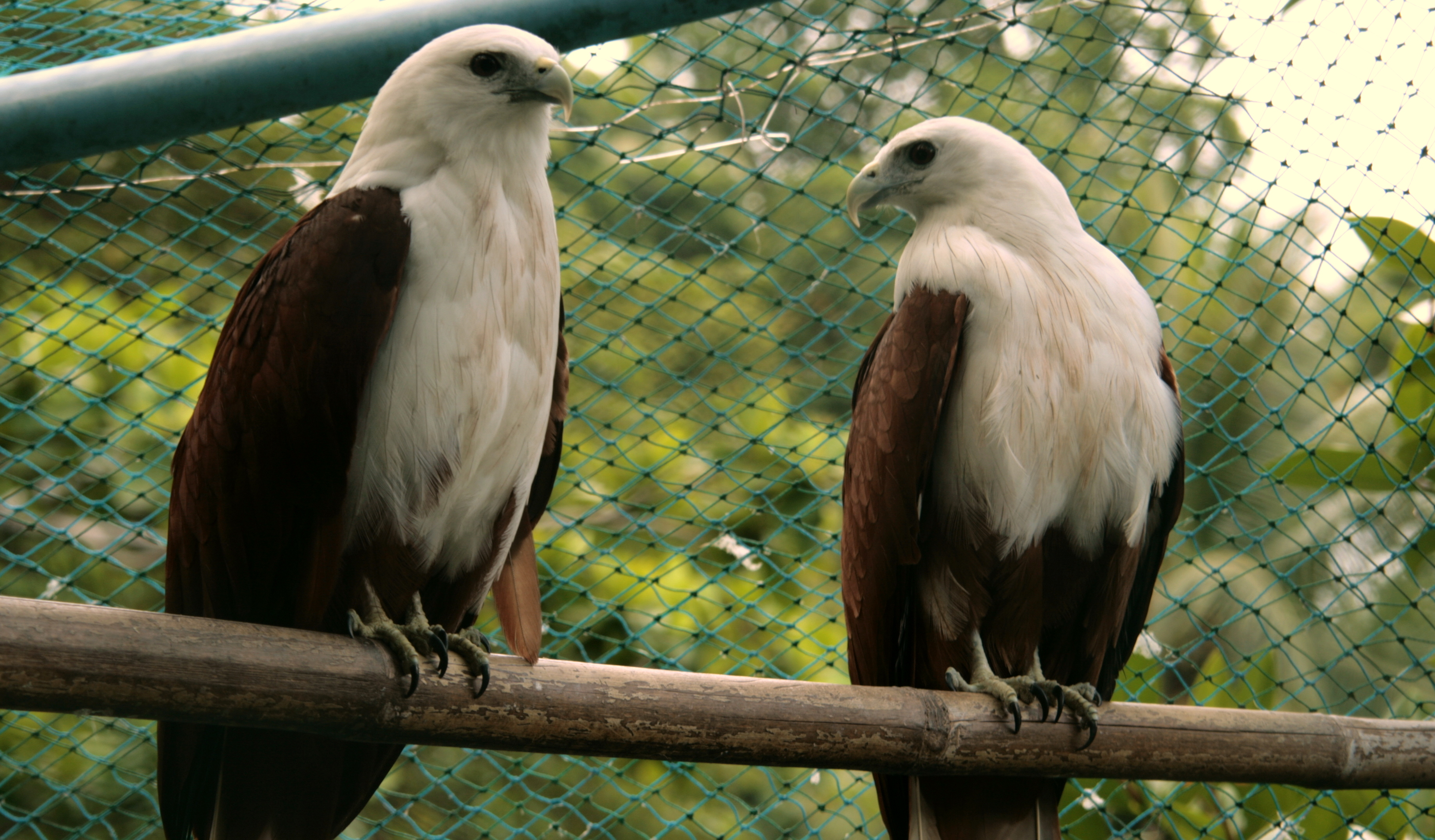 Brahminy Kite (Haliastur indus). Two in captivity in Manila, Philippines. Photo March 2008.